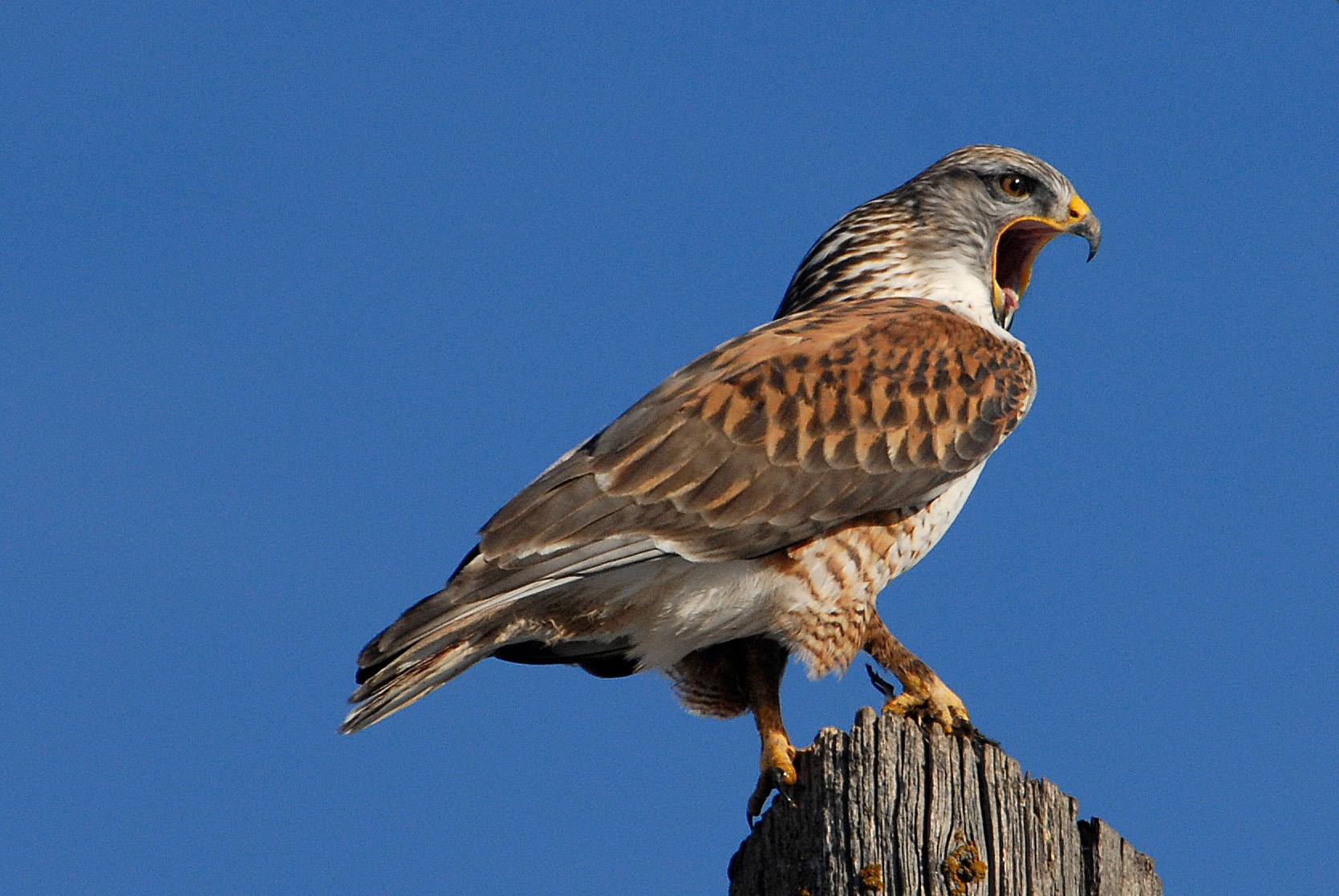 Ferruginous Hawk Buteo regalis, USFWS Pacific Southwest Region, USA.